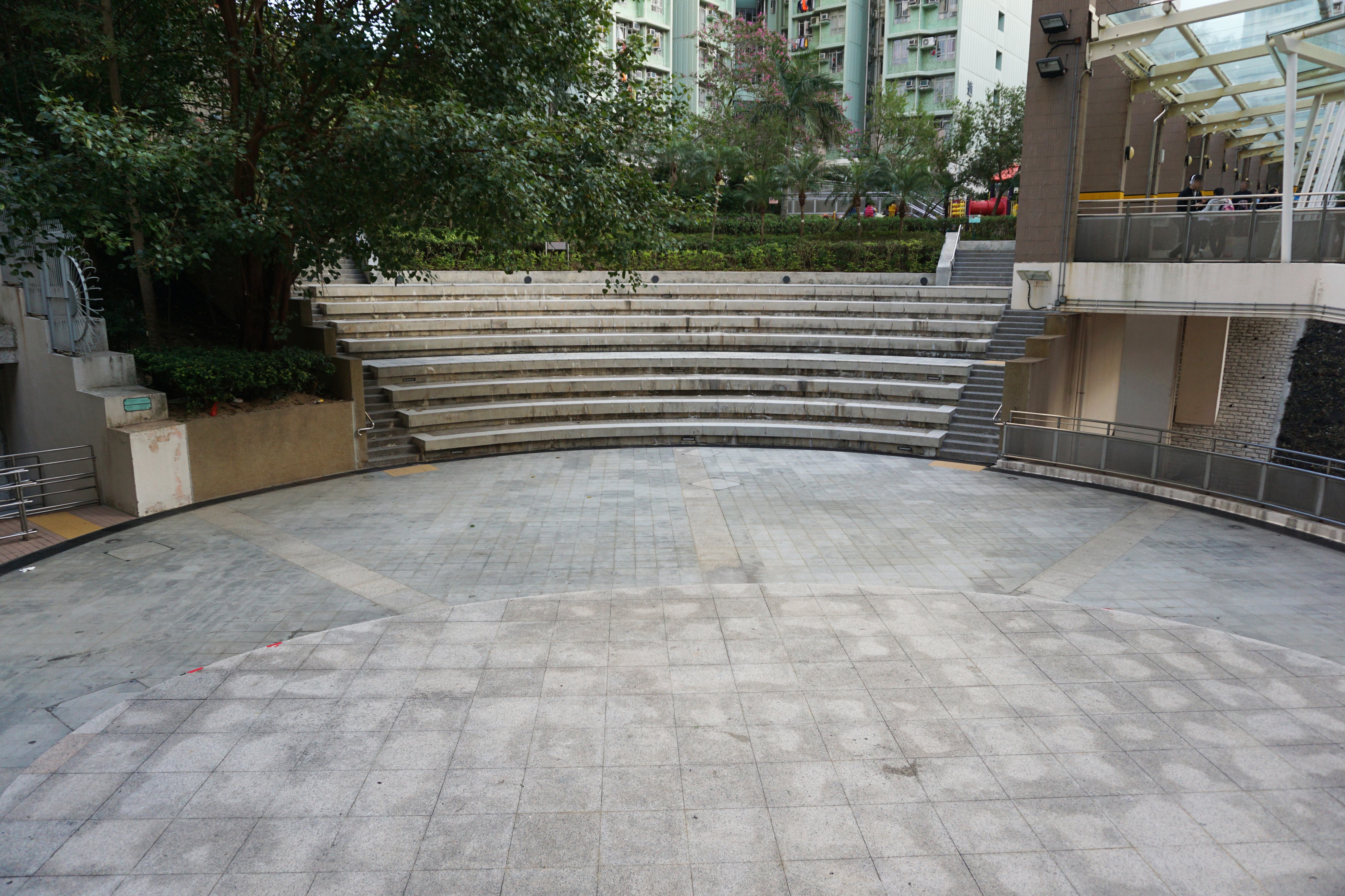 Ho Man Tin Estate in Kowloon City District, Hong Kong.